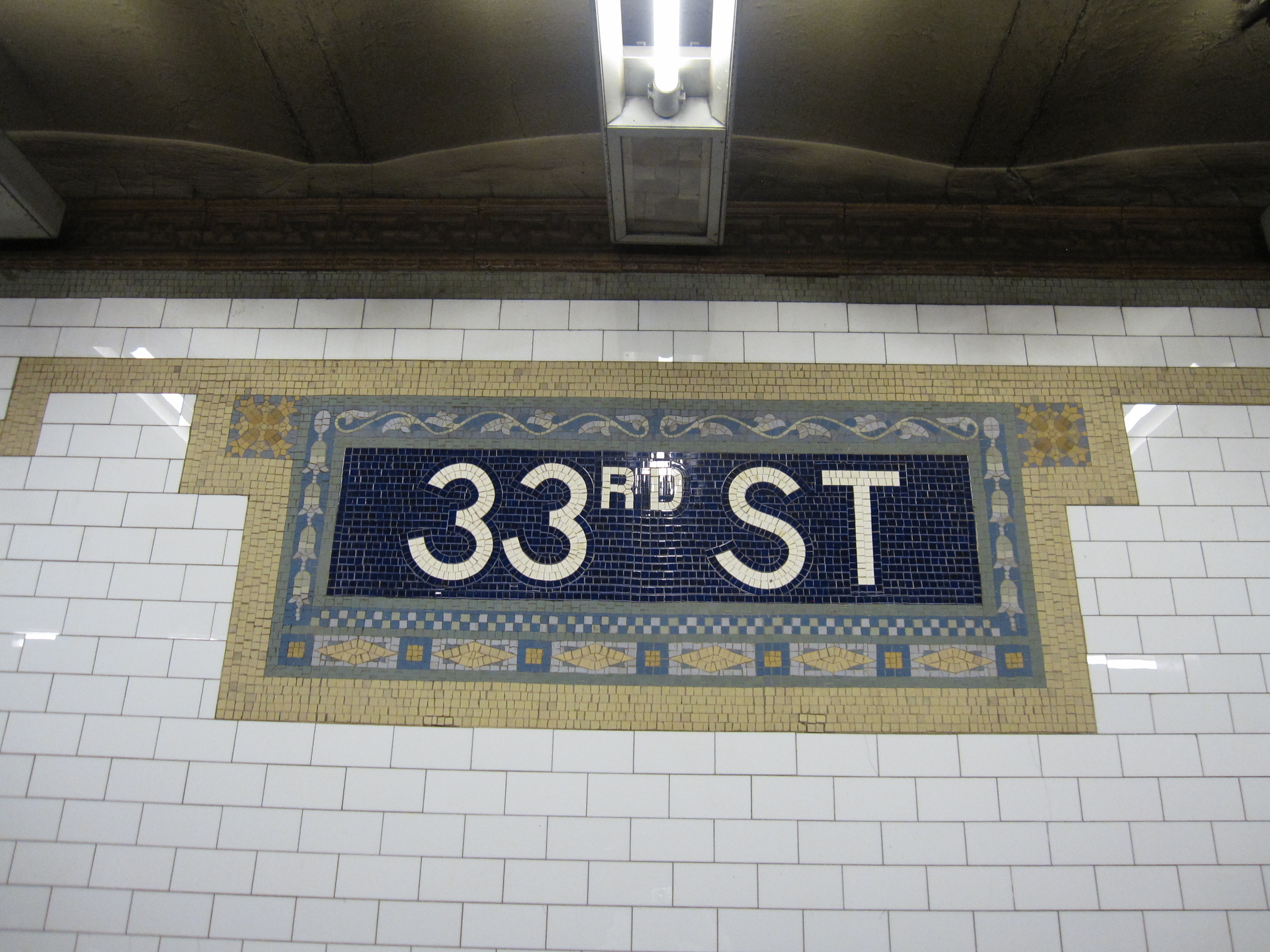 33rd Street (IRT Lexington Avenue Line)